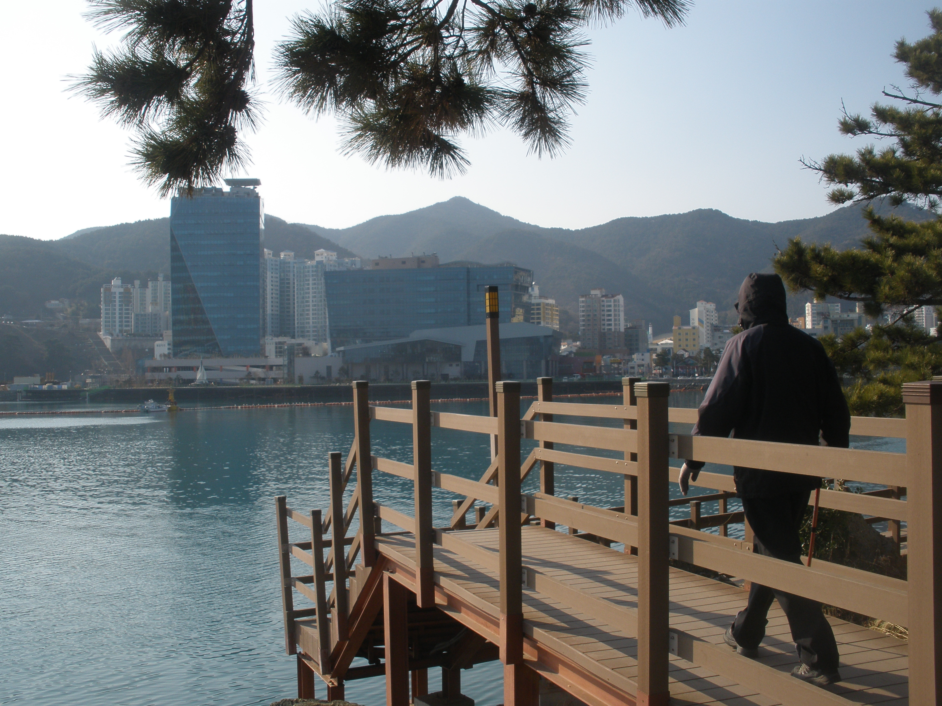 Okpo City. Taken from the boardwalk beneath the ruins of Okpo Land, Geoje, South Korea.